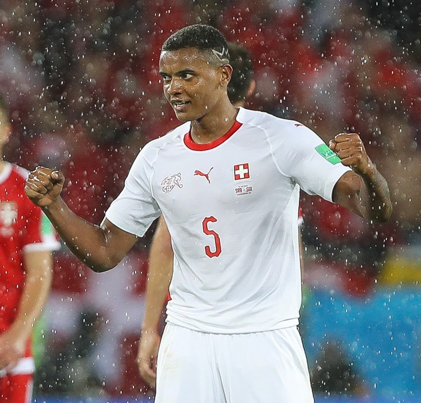 Manuel Akanji